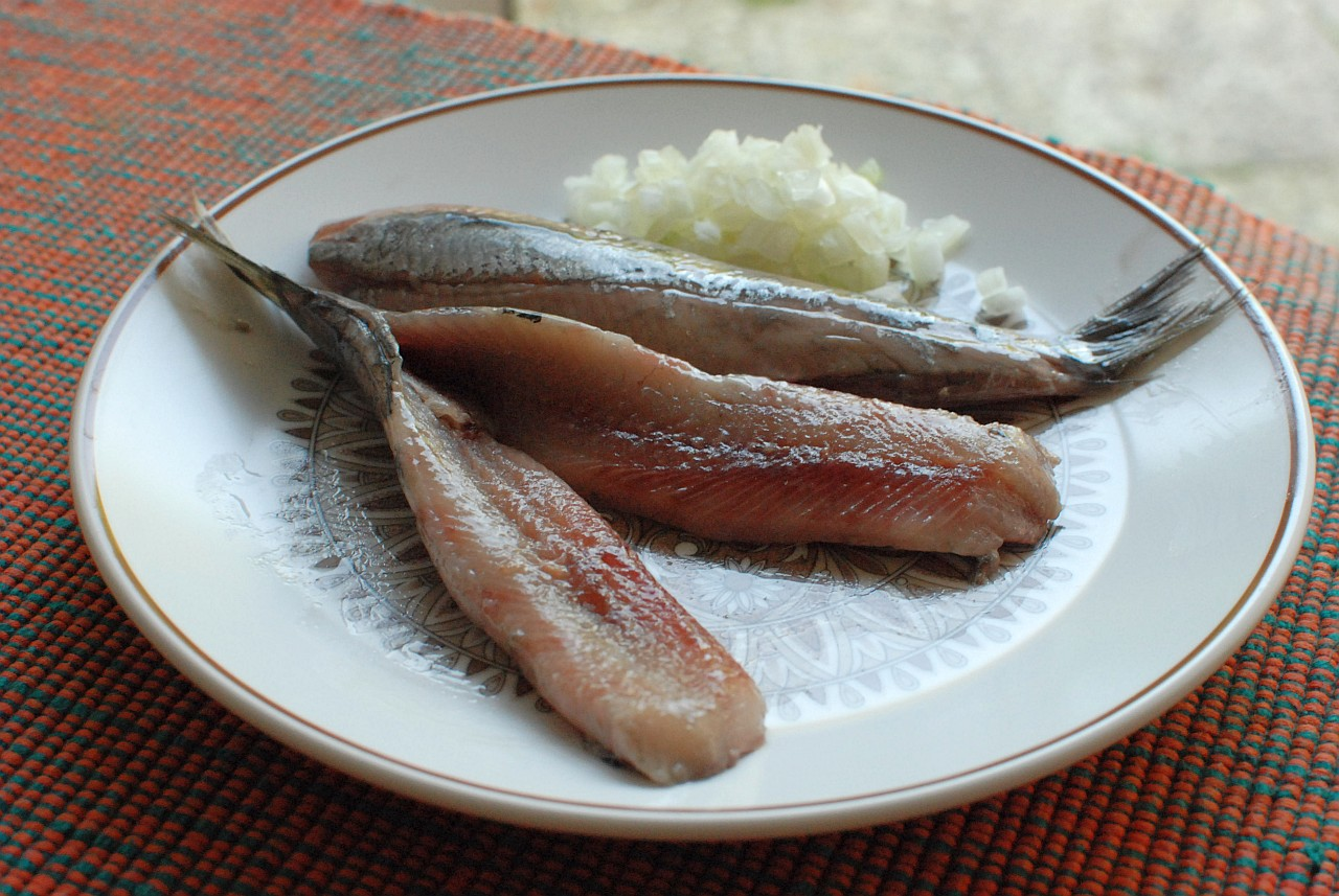 'Haring met uitjes' is Dutch for a raw herring with chopped onions. It has to be eaten very soon after having been cleaned as the taste deteriorates very fast through oxidation. The red colour of the meat of the herring that is folded open shows that it is still fresh.